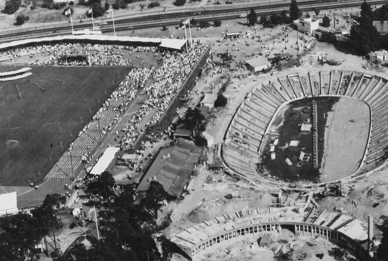 Johanneshovs IP (left) and Johanneshovs isstadion (right, when it was an open bandy arena) around 1955